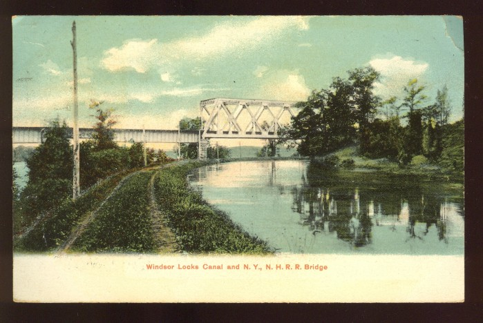 Postcard: Windsor Locks, Connecticut, Canal and railroad bridge, postmarked 1909